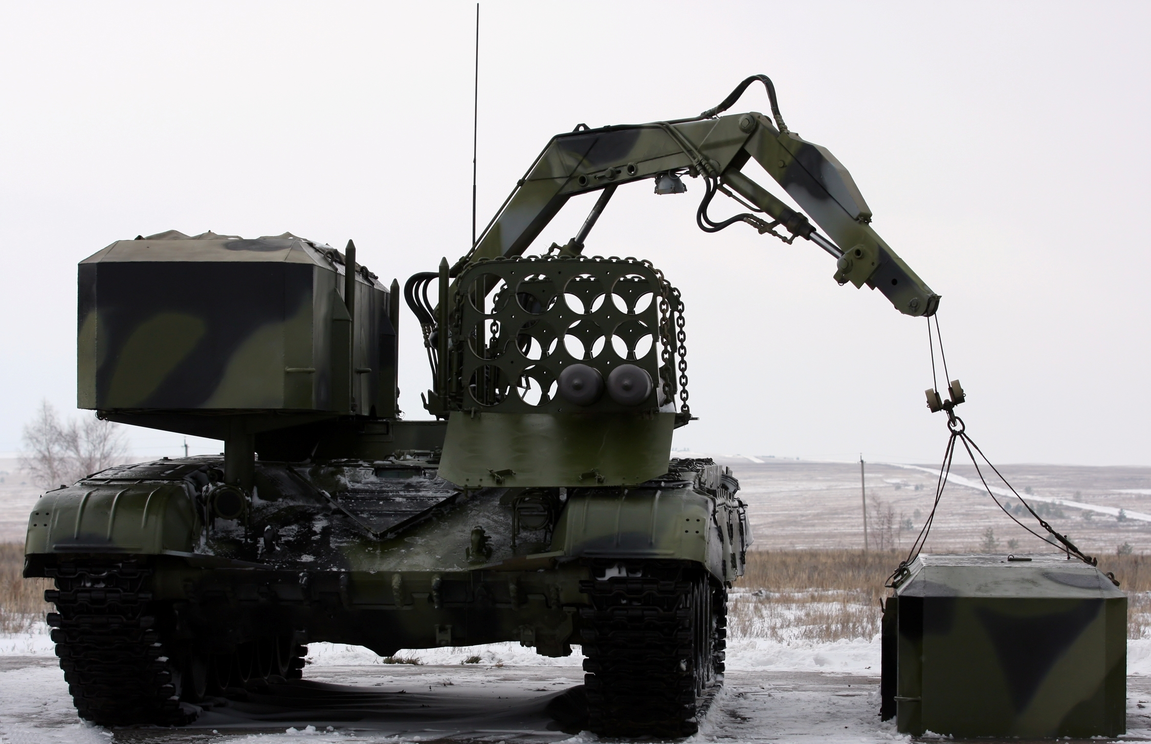 Reloading vehicle TZM-T of the TOS-1A system.